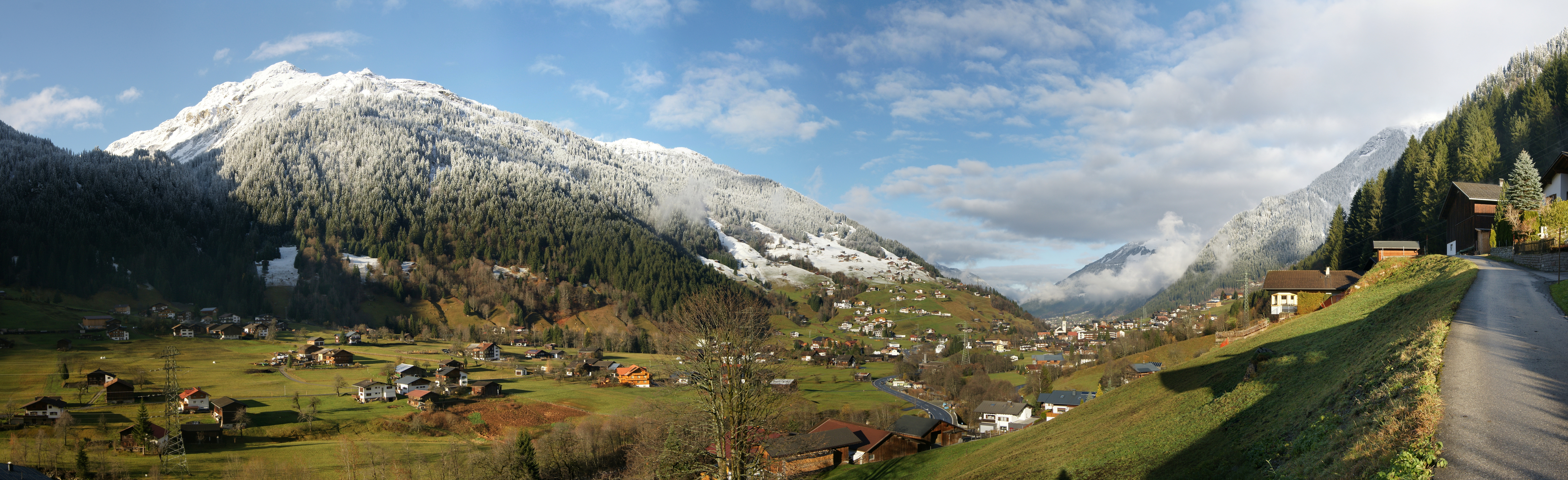 180 ° panoramic view of the district Rifa on Gaschurn. Gundalatscherberg left, it extends the ski resort Silvretta Nova. Continue left in the snow Valisera and Versettla. Right into fog shrouded the Skigebit Skigebit Hochjoch Schruns in Montafon.